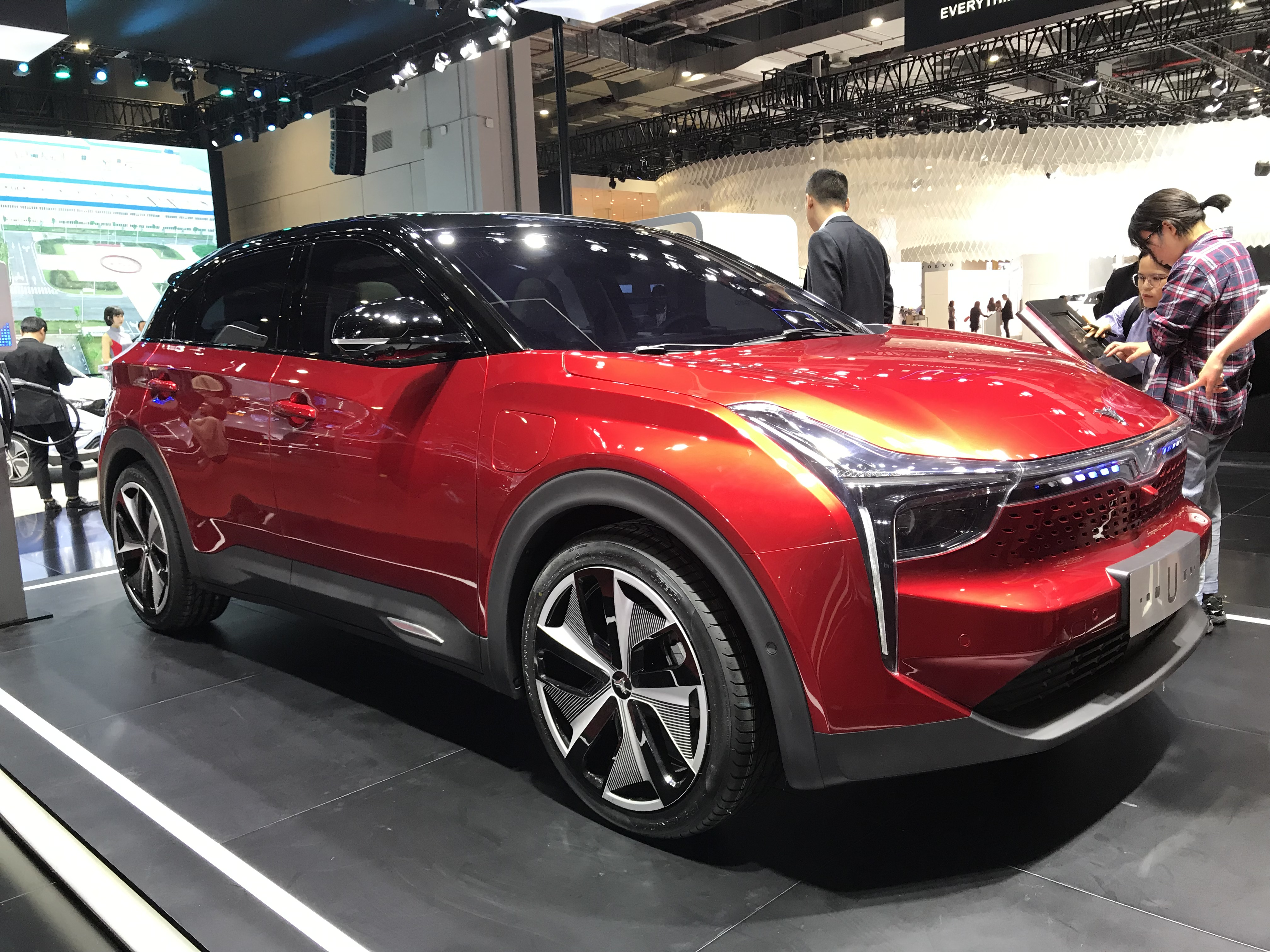 Hozon U